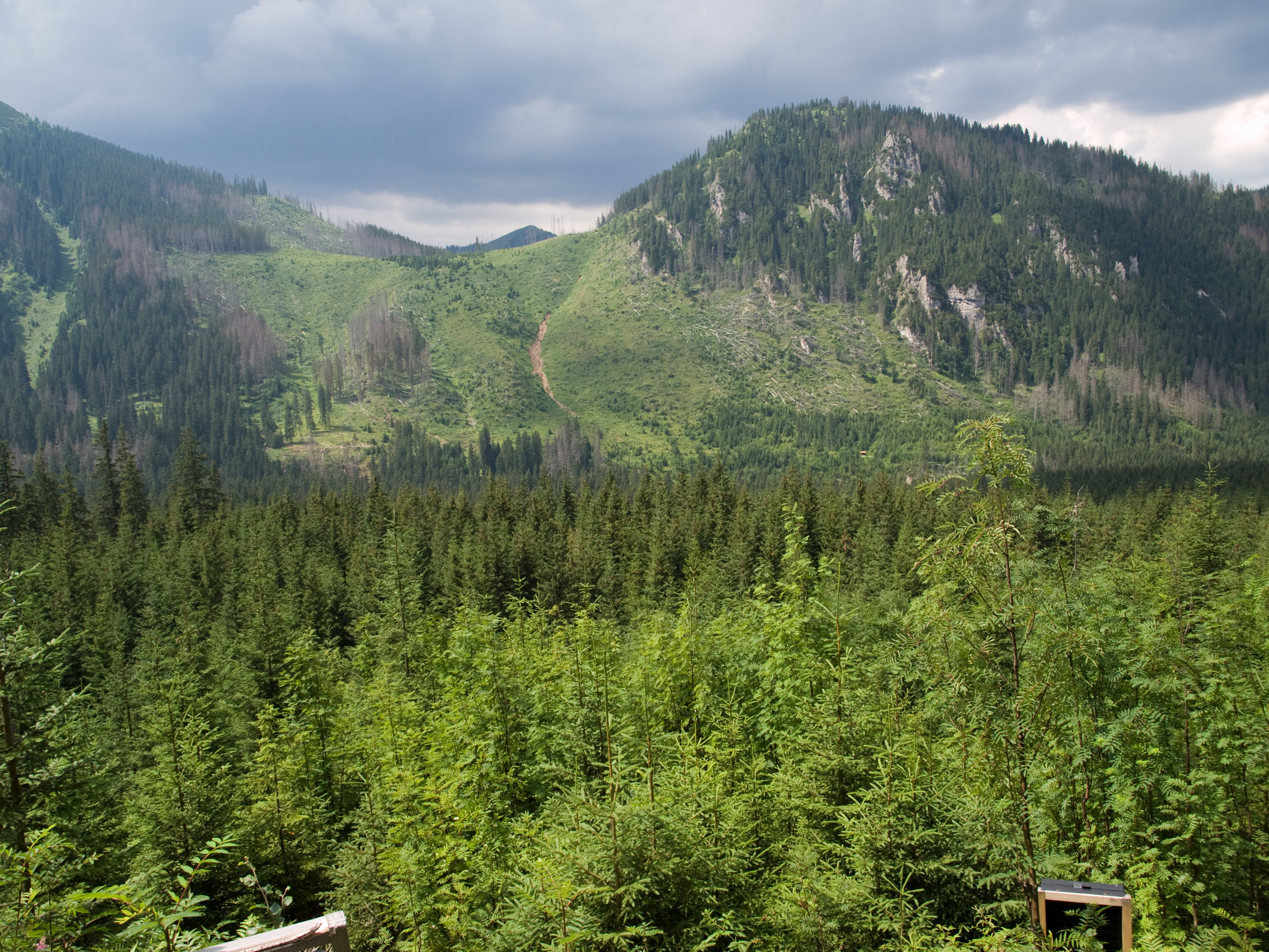 Sedlo pod Košiarom and Veľký Baboš seen from Javorová dolina